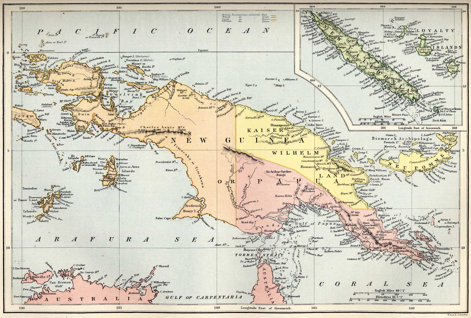 map of the island of New Guinea 1884 (with New Caledonia inset)